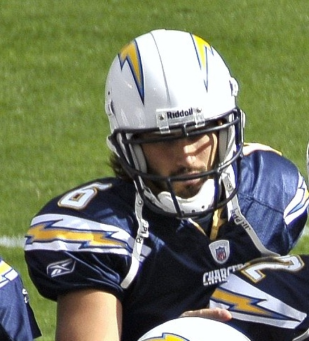 San Diego Chargers backup quarterback Charlie Whitehurst before the Nov. 9, 2008 game vs. the Kansas City Chiefs